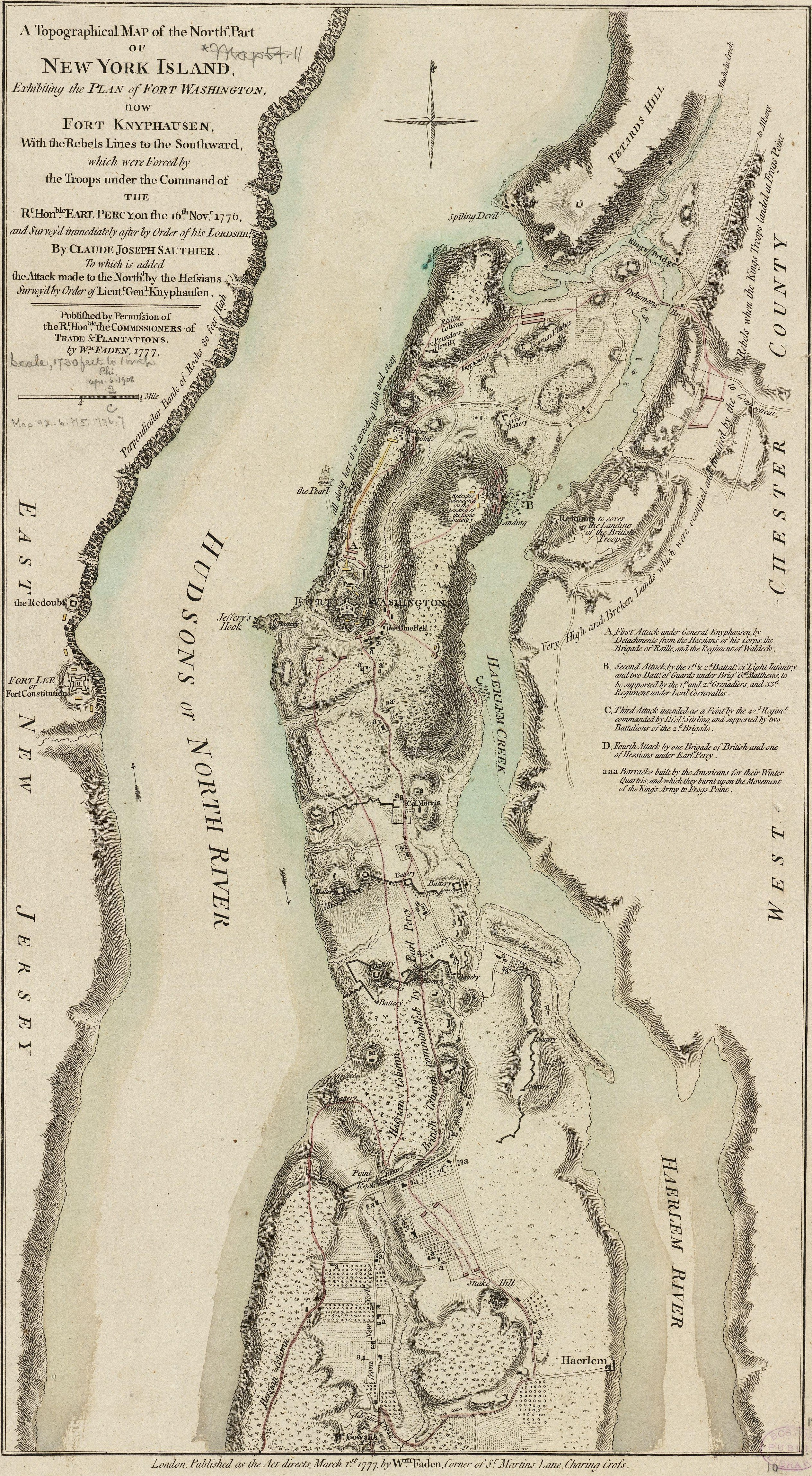 This map depicts the northern end of Manhattan, and the military fortifications in the area in 1776, during the American Revolutionary War. It has markings describing the military movements of the Battle of Fort Washington, fought November 16, 1776. The map's caption reads: A Topographical Map of the Northn. Part of New York Island, Exhibiting the Plan of Fort Washington, now Fort Knyphausen, With the Rebels Lines to the Southward, which were forced by the Troops under the Command of the Rt. Honble. Earl Percy, on the 16th Novr. 1776, and Survey'd immediately after by Order of his Lordship, By Claude Joseph Sauthier. To which is added the Attack made to the Northd. by the Hessians Survey'd by Order of Lieutt. Genl. Knyphausen. Published by Permission of The Rt. Honble. the Commissioners of Trade & Plantations. By Wm. Faden, 1777.